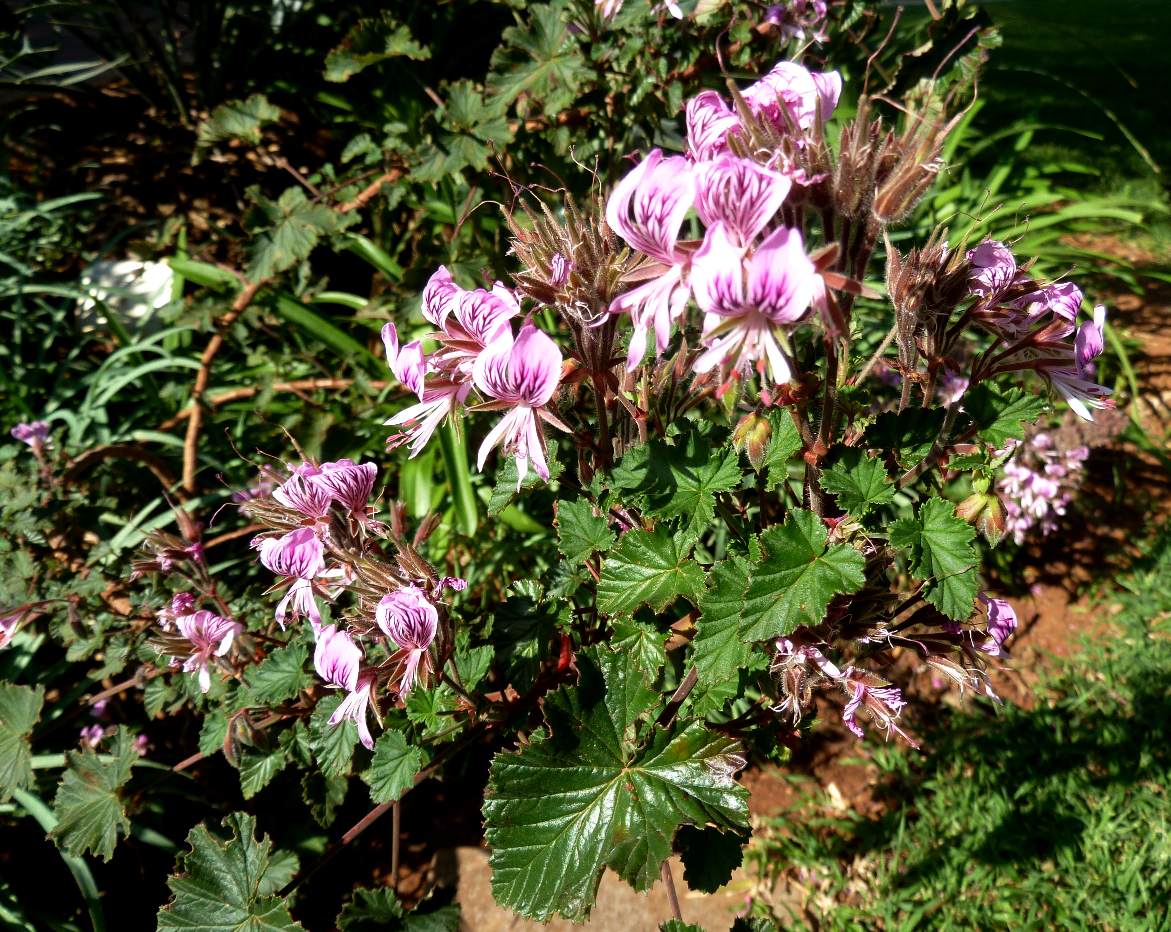 Heart-leaved storkbill in the Pretoria National Botanical Garden, South Africa